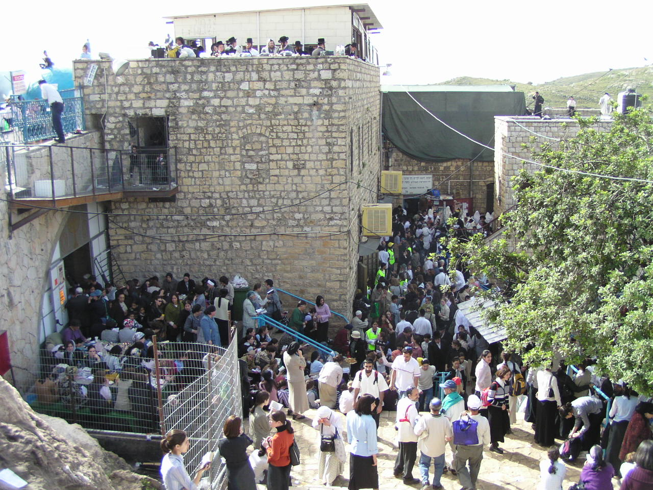 The grave of Rabbi Simeon Bar Yochai in Meron On Lag B'Omer